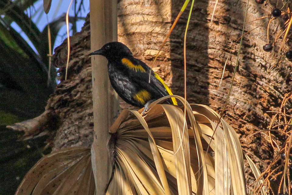 Hispaniolan Oriole (Icterus dominicensis), Sierra Baoruco National Park & Lago Er, Dominican Republic